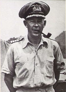 Portrait of Captain (later Vice Admiral Sir) Roy Russell Dowling, a senior officer in the Royal Australian Navy.